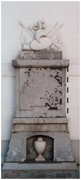 An epitaph of a Polish colonel Jakub Ferdynand Bogusławski (1759-1819) in the Church of St. Charles of Borromeo (Kościół św. Karola Boromeusza) - Powązki Cemetery in Warsaw.